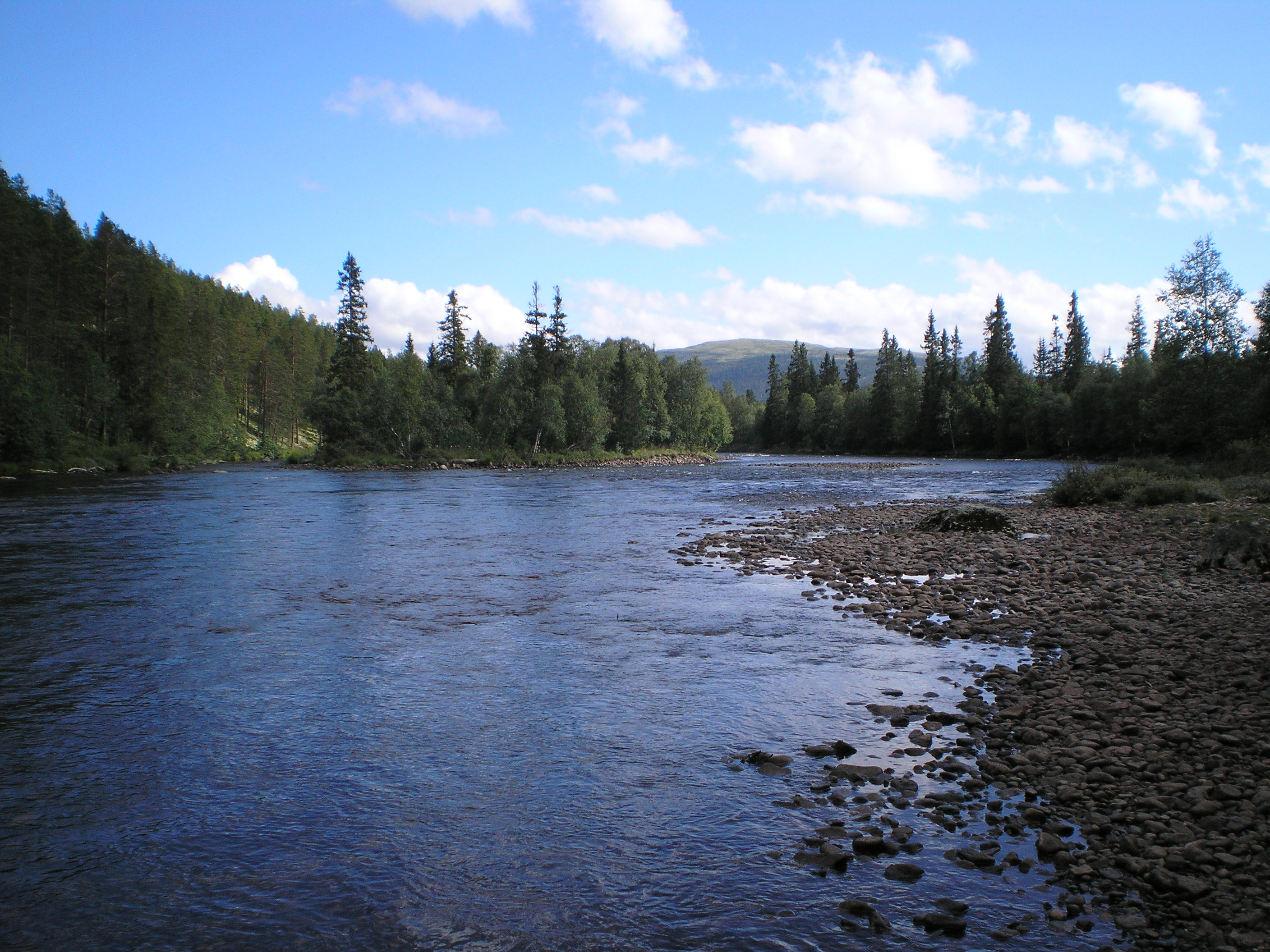 Trysilelva, Hedmark, NorwayNorsk bokmål: Femundselva (Trysilelva) like etter samløpet med Sølna